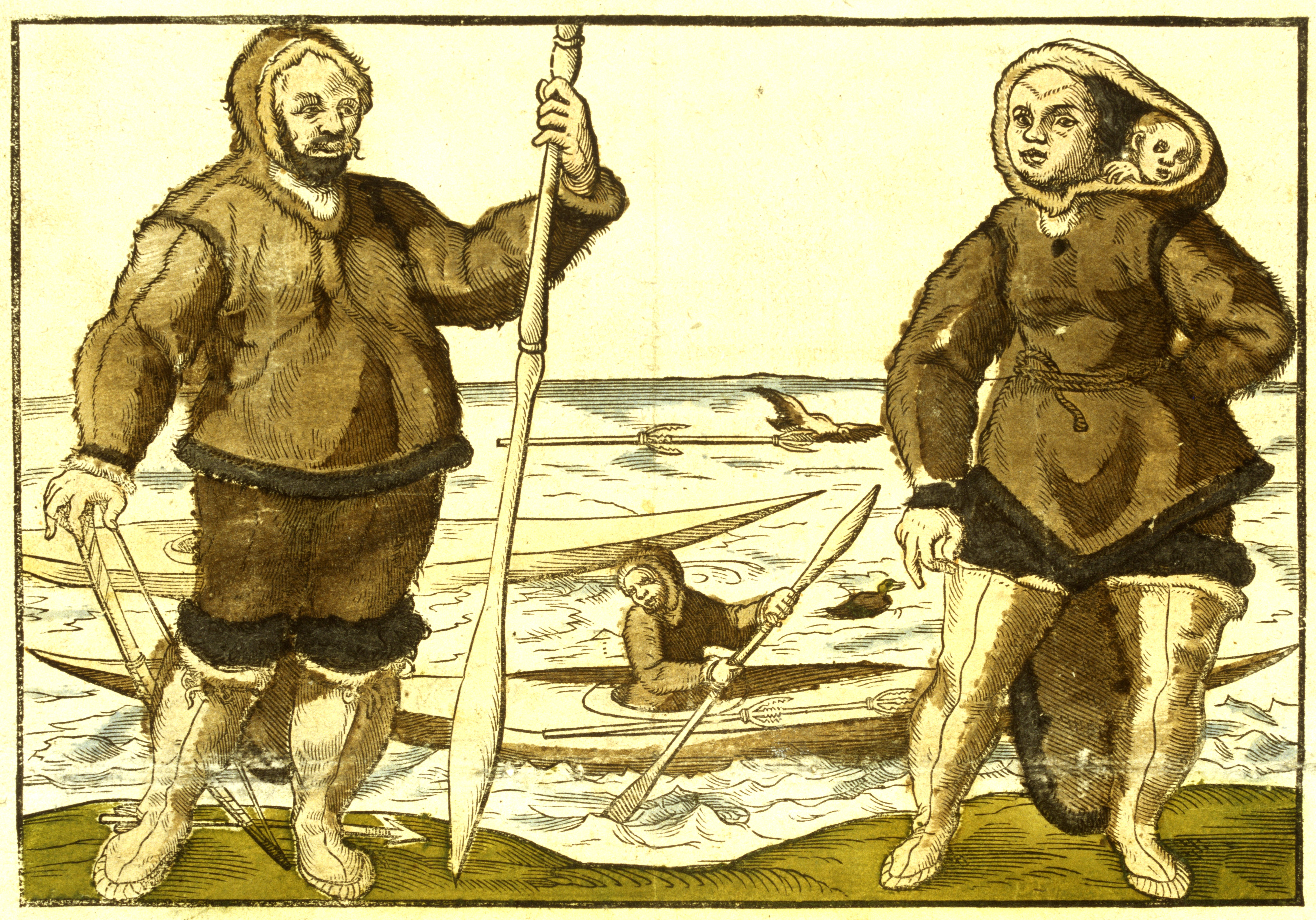 Zentralbibliothek Zürich - Merckliche Beschreibung sampt eygenlicher Abbildung eynes frembden unbekanten Volcks